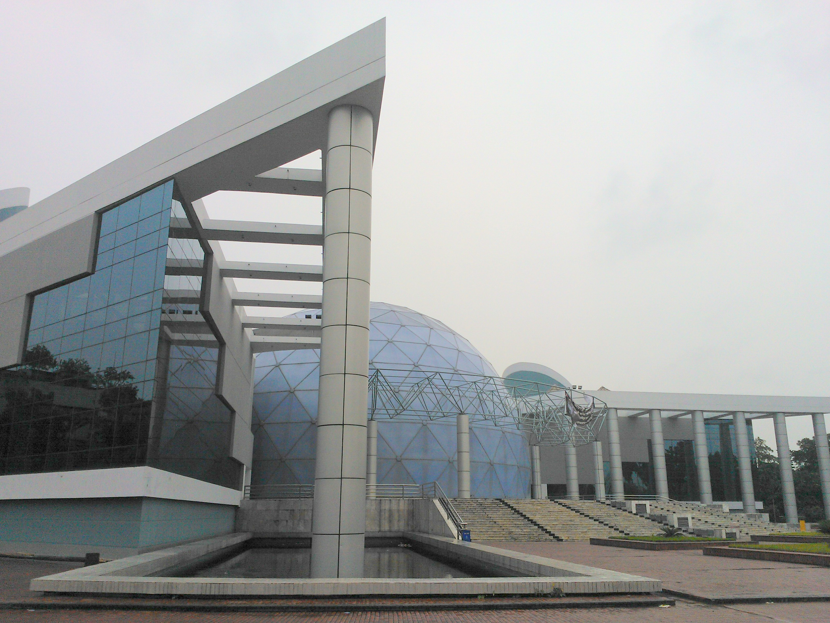 Bangabandhu Sheikh Mujibur Rahman Novo Theatre, Dhaka.